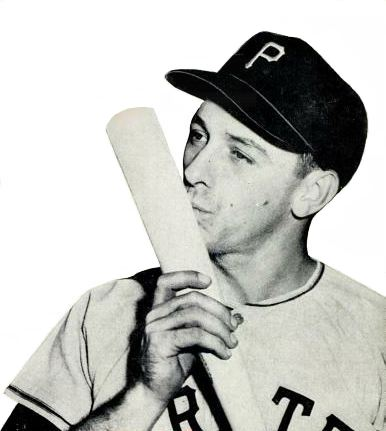 Pittsburgh Pirates first baseman Dale Long in a 1956 issue of Baseball Digest.